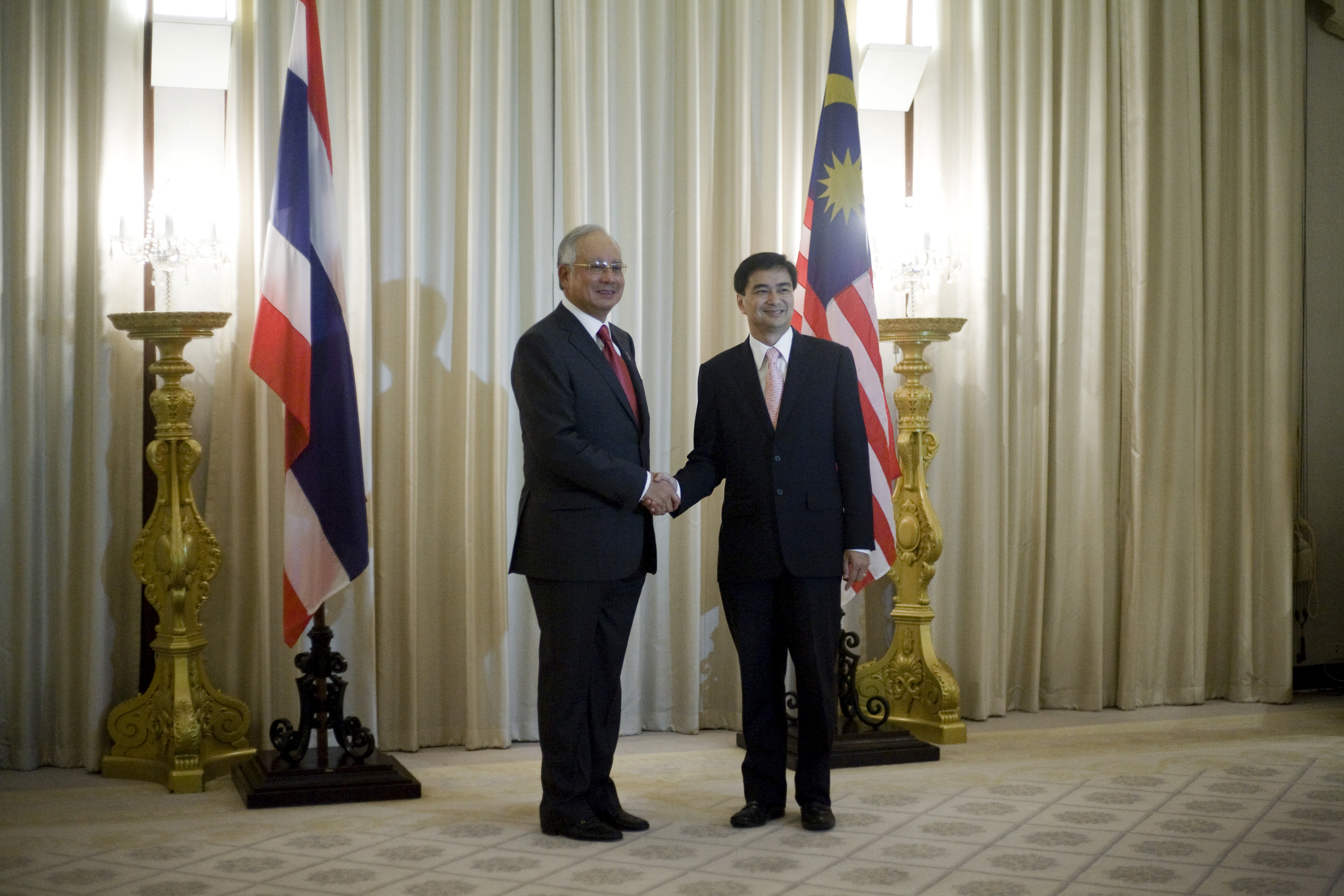 พิธีต้อนรับนายกรัฐมนตรีมาเลเซียอย่างเป็นทางการ ณ ห้องสีงาช้าง ตึกไทยคู่ฟ้า ทำเนียบรัฐบาล 8ธันวาคม2552 (The Official Site of The Prime Minister of Thailand Photo by พีรพัฒน์ วิมลรังครัตน์)